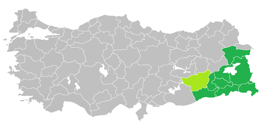 Kurdish speaking provinces in Turkey according to the census of 1965; absolute majority in dark green, relative majority in light green.